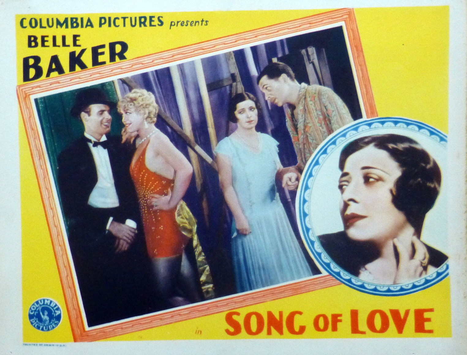 Lobby card for the American musical film Song of Love (1929).